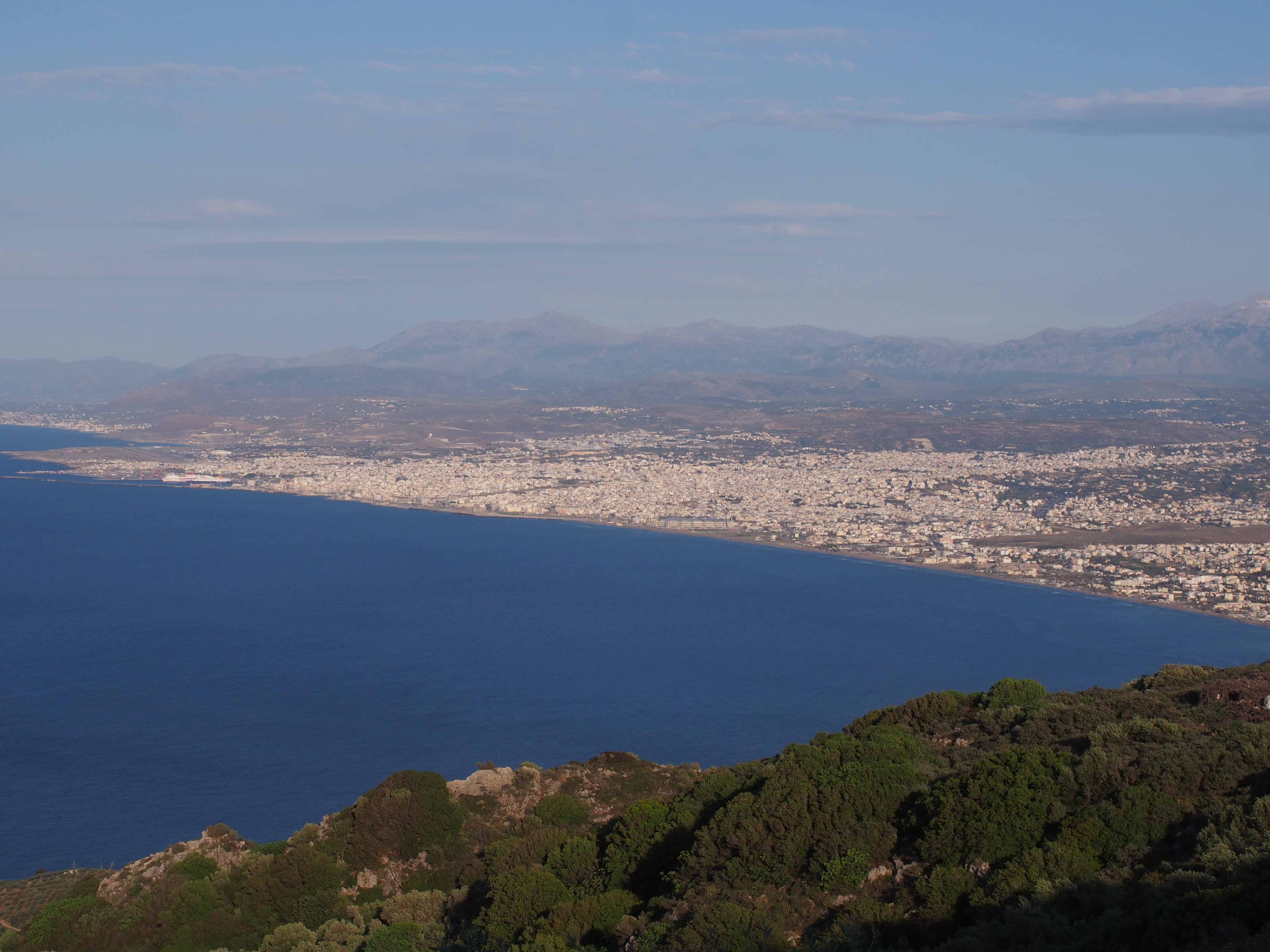 View of Heraklio, Crete, from Ro(g)dia at the northwest. At the background are seen the mountains of Lasithi.